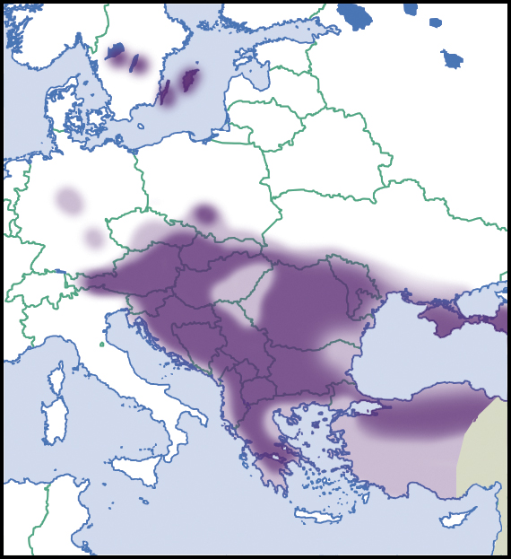 Chondrina arcadica (Reinhardt, 1881). Distributional range in Europe, scientific state of knowledge of 2012. Source description in English. Light colour indicated rare occurrences or regions where the species could eventually be expected to occur. Dark colour indicated relatively reliable occurrences, as well as regions where the species was expected to occur, and where the species was not known to be extremely rare. Dark colour indications were not necessarily based on published records. Species summary in AnimalBase